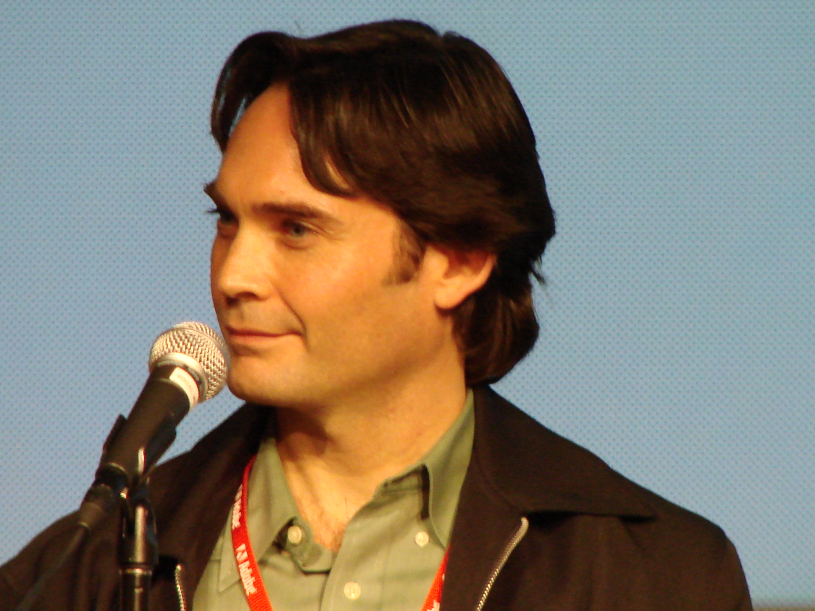 Joel Breton speaking at Flash Game Summit 2010 2